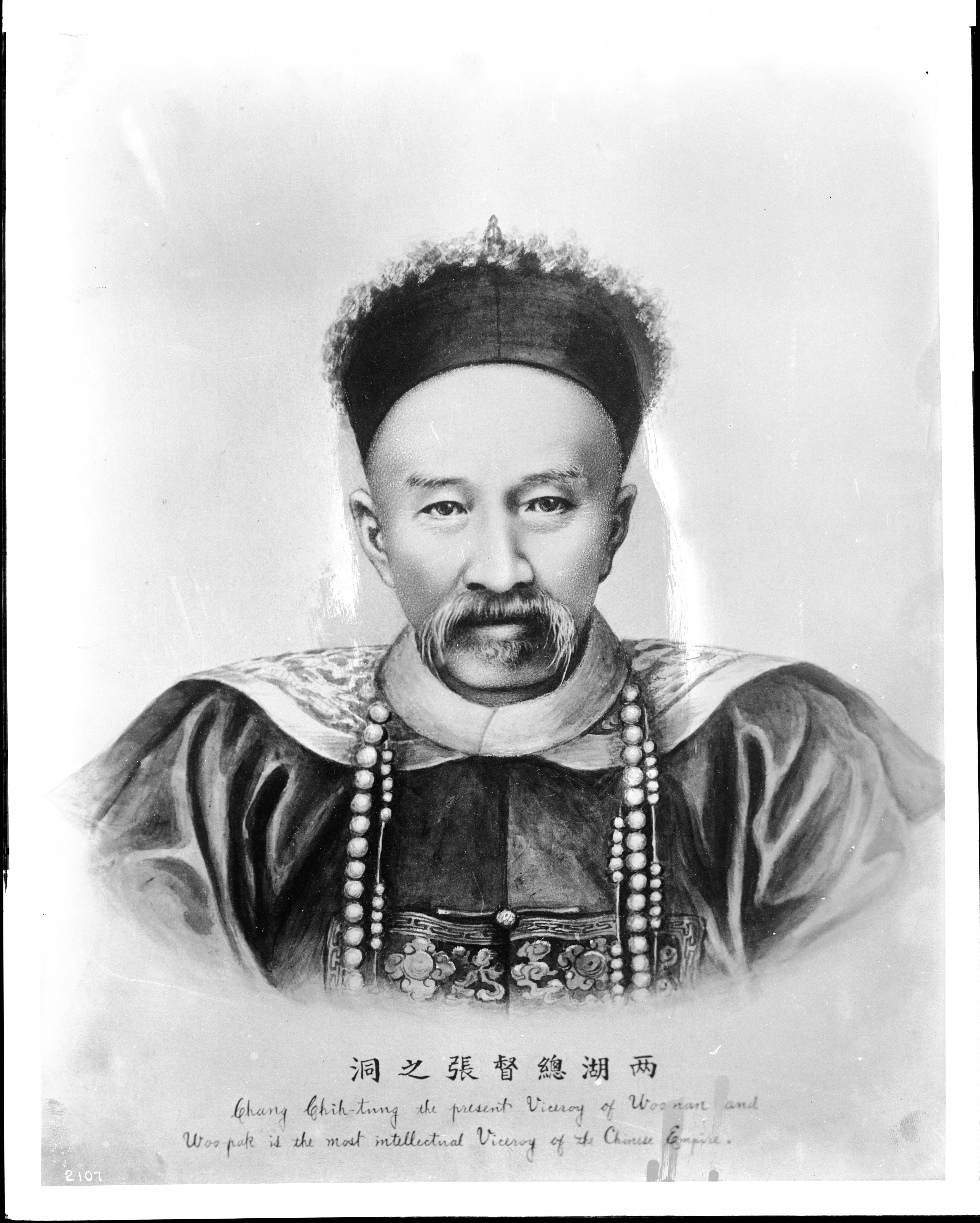 Portrait of Chang Chih-tung, Viceroy of Woo-nan Photograph of a drawing of a portrait of Chang Chih-tung, Viceroy of Woo-nan, China. From the chest up. He has a high forehead. He is wearing a hat with with frills on the crown. His shirt has an embroidered designs on the chest. He is wearing a cape with a necklace of beads. He has a short beard and long moustache. Legible writing at the bottom: "Chang Chih-tung, the present Viceroy of Woo-nan and Woo-pak is the most intellectual viceroy of the Chinese empire". Seven Chinese characters are written above the preceding caption. Call number: CHS-2107 Photographer: Pierce, C.C. (Charles C.), 1861-1946 Filename: CHS-2107 Coverage date: circa 1900 Part of collection: California Historical Society Collection, 1860-1960 Type: images Part of subcollection: Title Insurance and Trust, and C.C. Pierce Photography Collection, 1860-1960 Repository name: USC Libraries Special Collections Format: glass plate negatives Microfiche number: 1-230-; 1-70-107 Archival file: chs_Volume80/CHS-2107.tiff Repository address: Doheny Memorial Library, Los Angeles, CA 90089-0189 Geographic subject (country): China Format (aacr2): 2 photographs : glass photonegative, photoprint, b&w ; 26 x 21 cm. Rights: Digitally reproduced by the USC Digital Library; From the California Historical Society Collection at the University of Southern California Project: USC Accession number: 2107 Repository Contributing entity: California Historical Society Date created: circa 1900 Publisher (of the digital version): University of Southern California. Libraries Format (aat): photographic prints; photographs Legacy record ID: chs-m10340; USC-1-1-1-10484 Access conditions: Send requests to address or e-mail given. Phone (213) 821-2366; fax (213) 740-2343. Subject (file heading): Minorities -- Chinese Subject (lcsh): Chinese; Government Subject: Chang Chih-tung